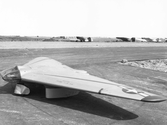 The Northrop MX-334 experimental rocket-powered flying wing.